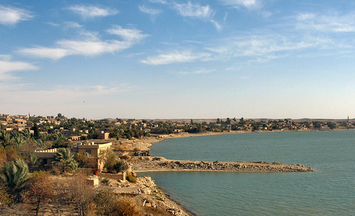 An Iraqi city by the grand Euphrates river.